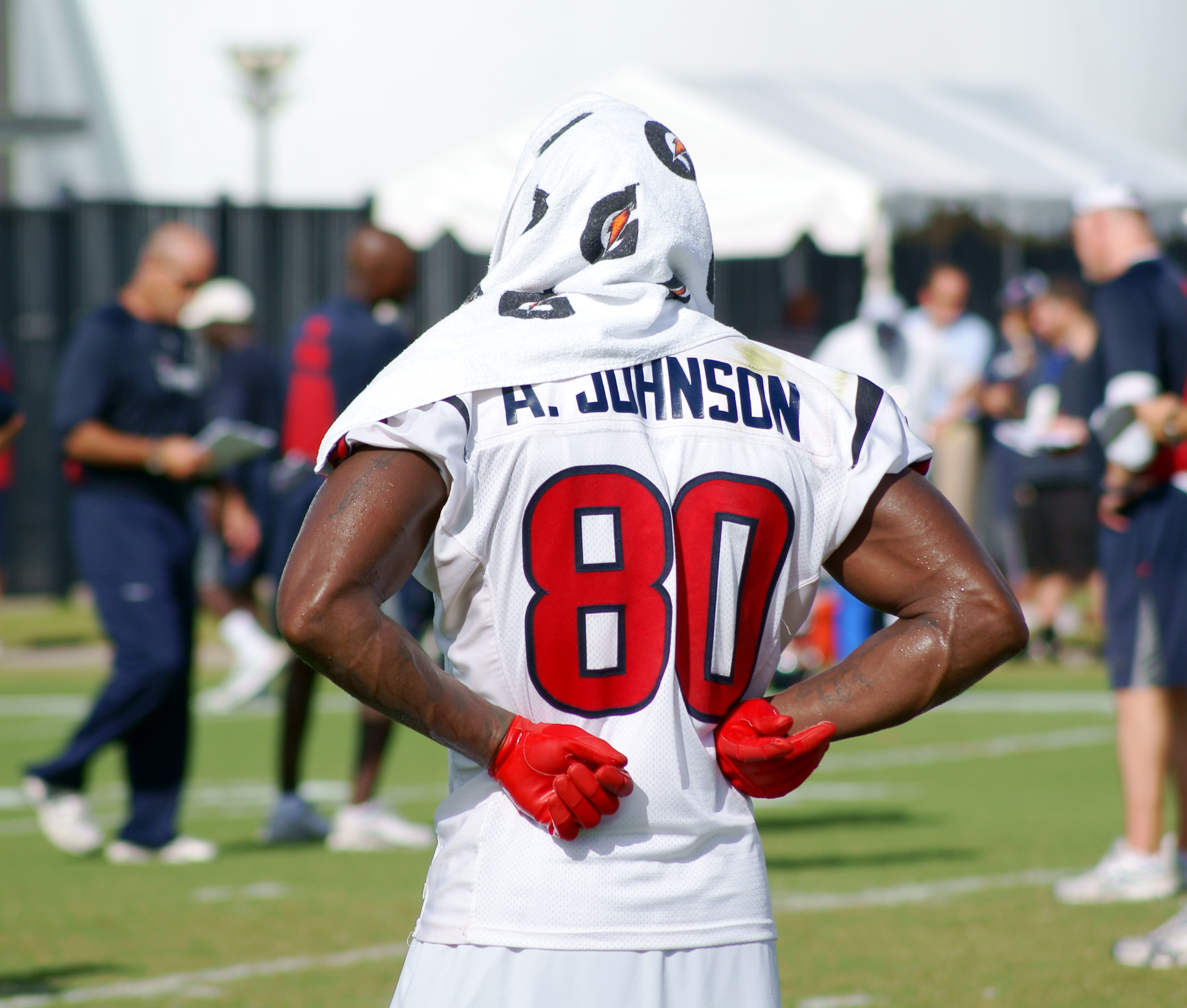 Andre Johnson gets a well deserved break during Texans training camp